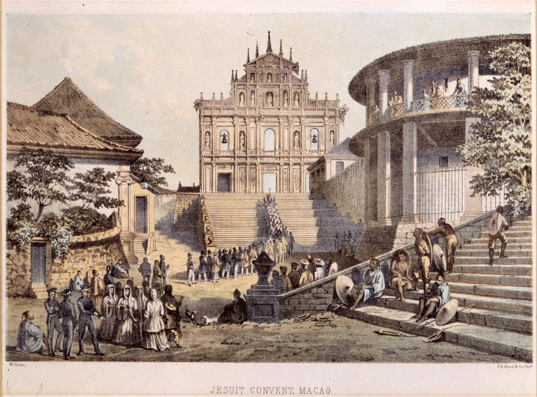 The facade of St. Paul's Church, titled 'Jesuit Convent, Macao'.